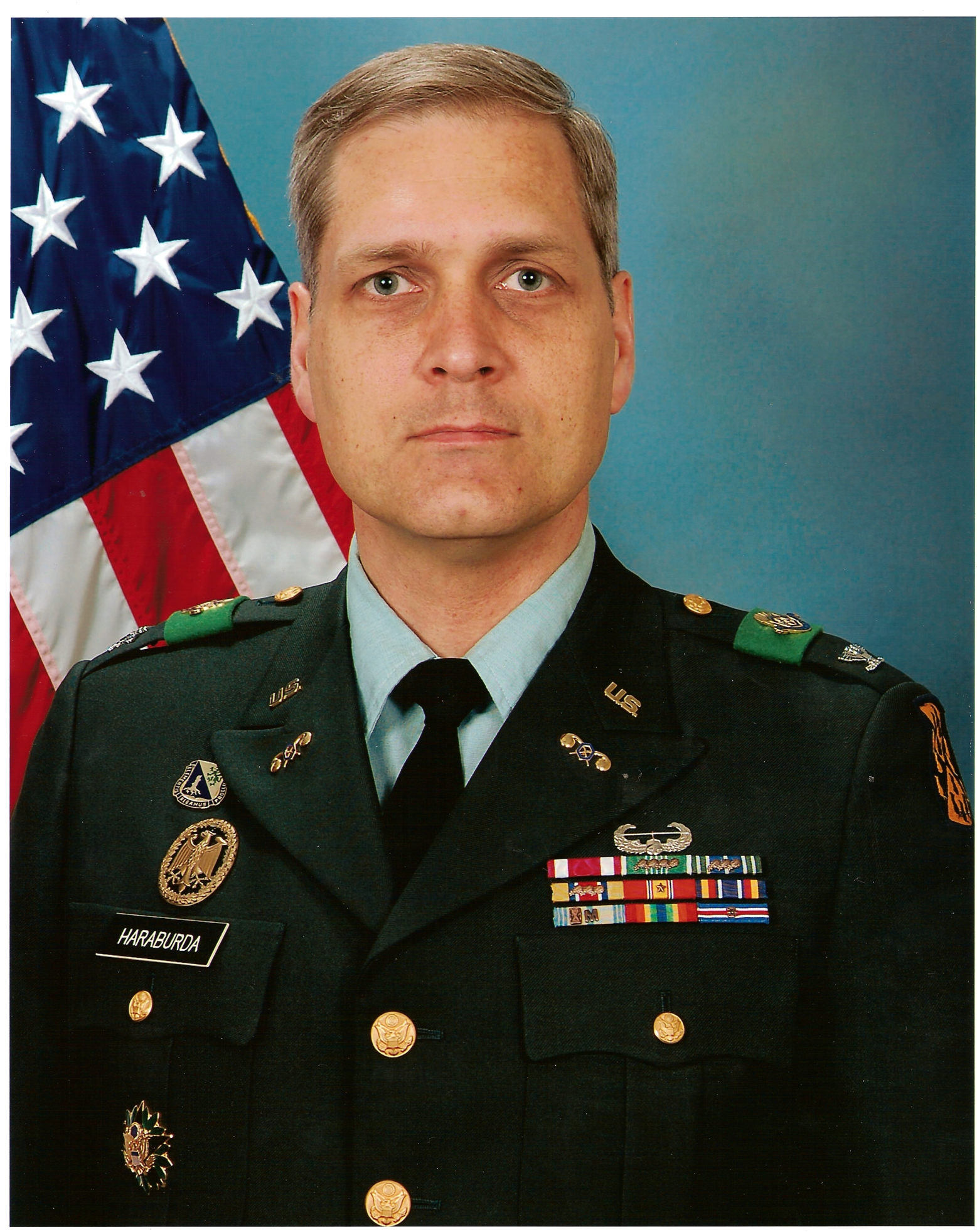 Command photograph of Colonel Scott S. Haraburda, who commanded the 464th Chemical Brigade (United States) from January 2006 – October 2007.